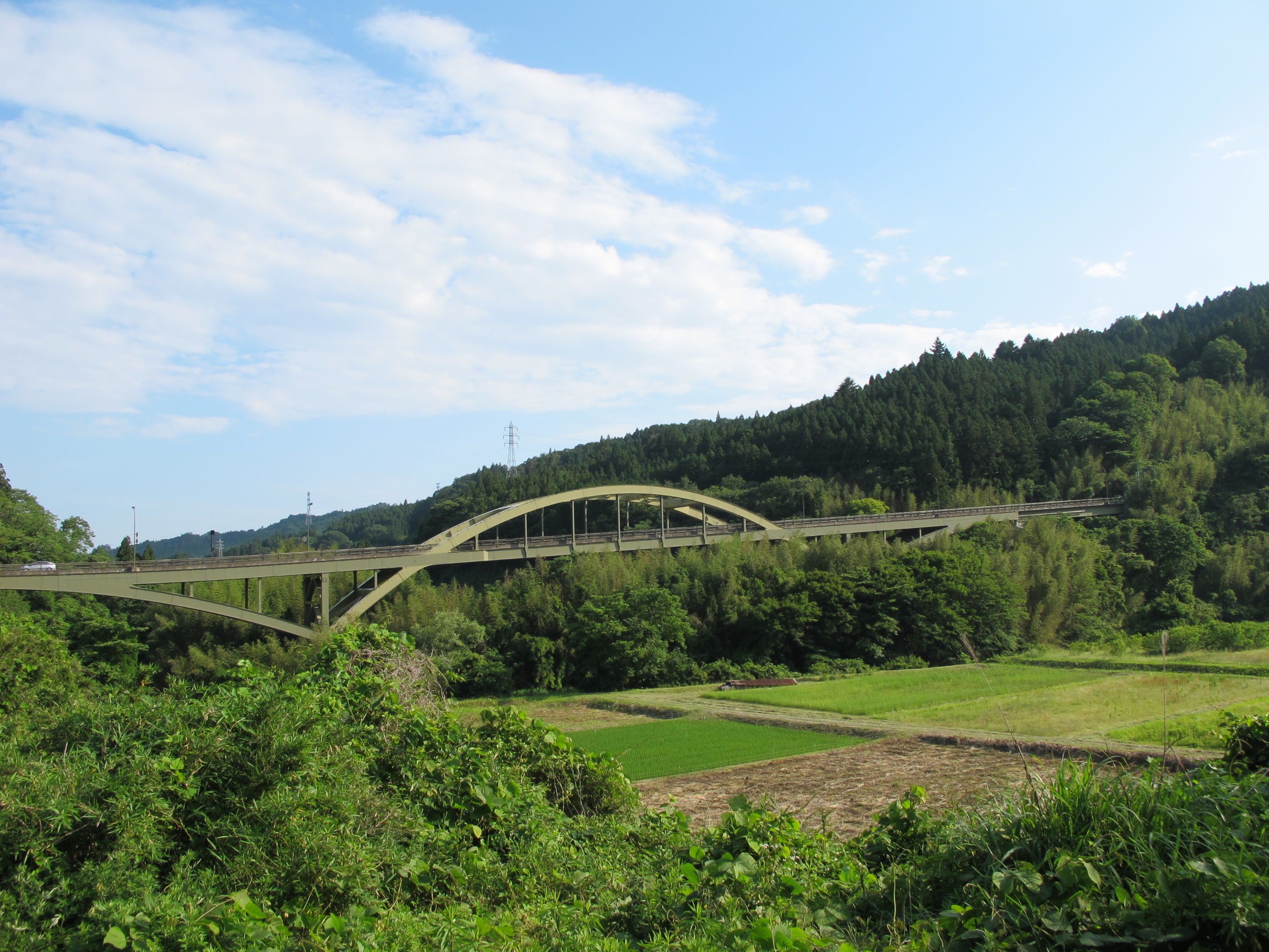 Satomi Bridge (Satomi ohashi) on the Ibaraki Prefectural Road Route 36 in Hitachiota City